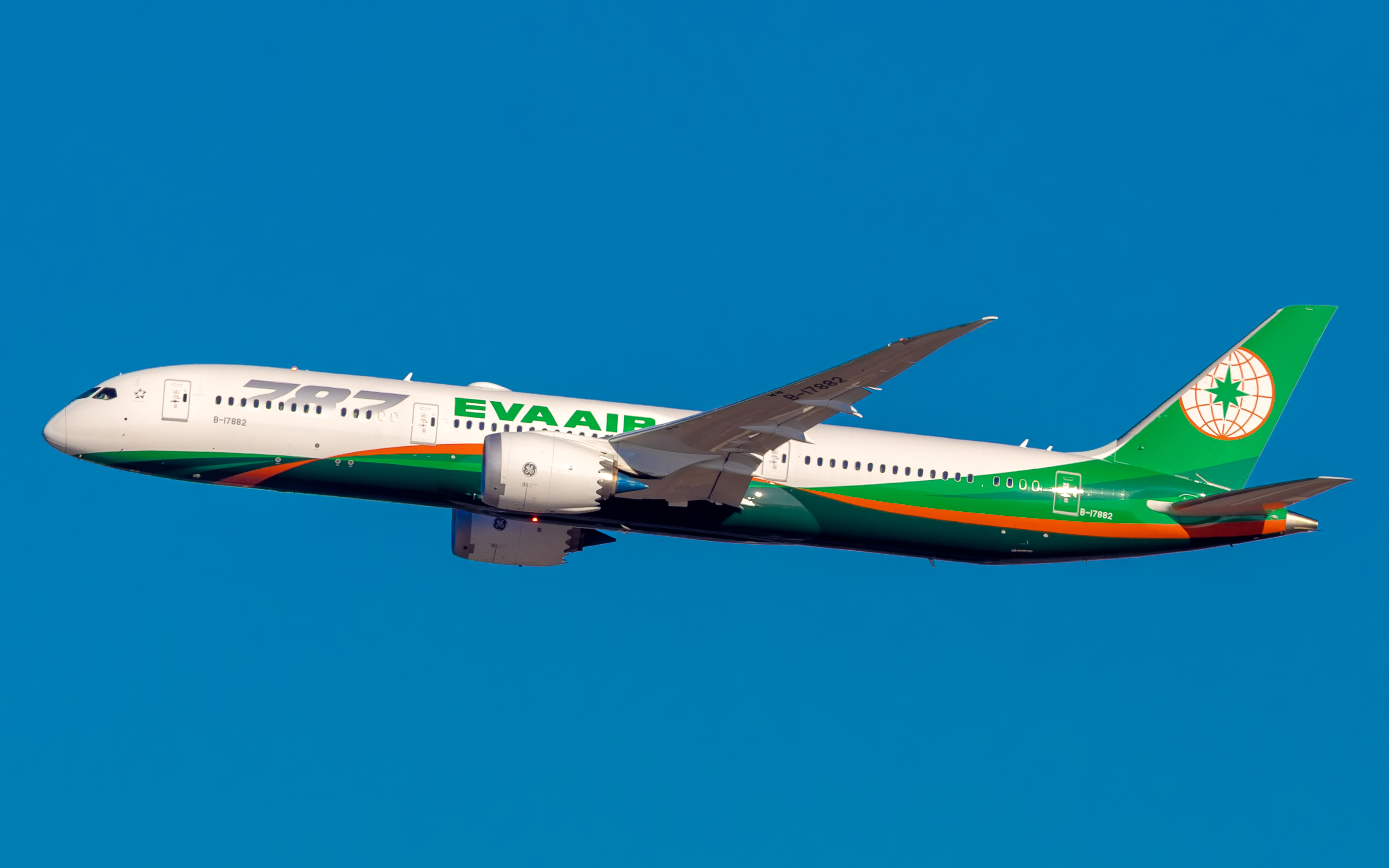 0Q8A0203-Edit-2